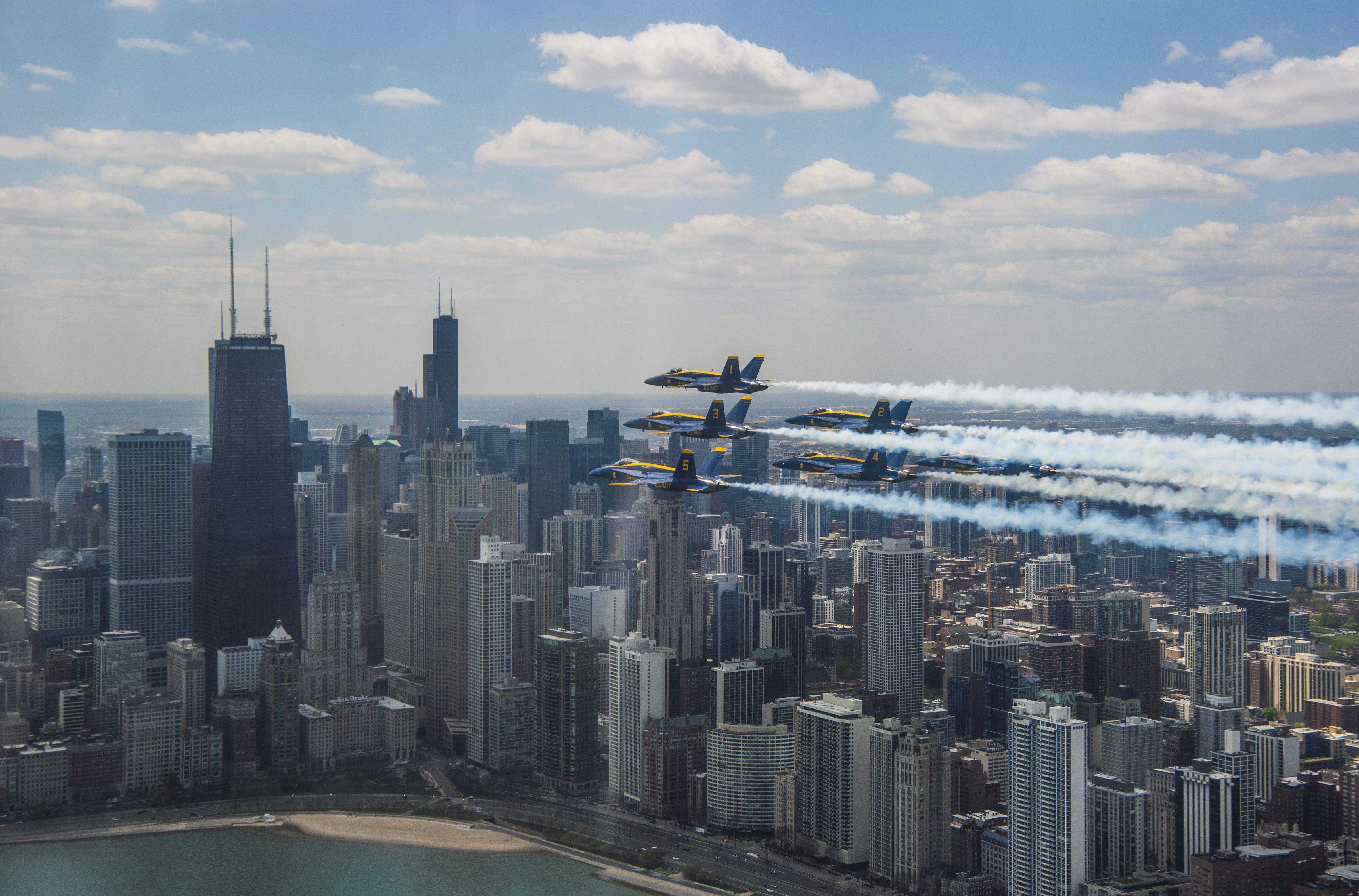 CHICAGO (May 12, 2020) The U.S. Navy Flight Demonstration Squadron, the Blue Angels honored frontline COVID-19 first responders and essential workers with formation flights over Detroit, Chicago, and Indianapolis on May 12, 2020. (U.S. Navy photo by Lt j.g. Chelsea Dietlin/Released)200512-N-ZW241-1356